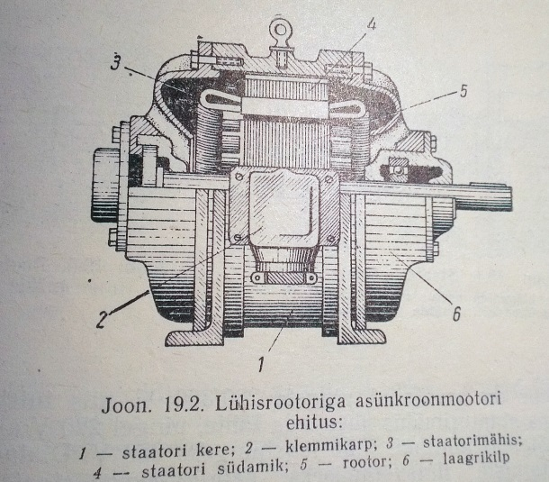 asünkroonmootori ehitus